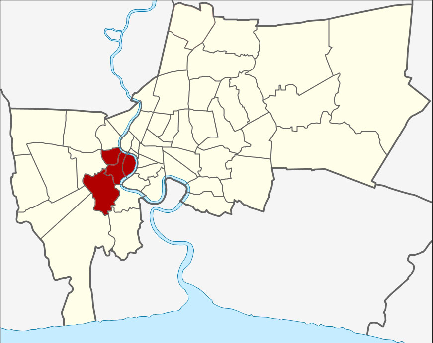 Bangkok 2007 Election Zone 9